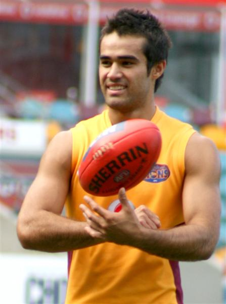 Scott Harding at a Brisbane Lions public training session in 2008.